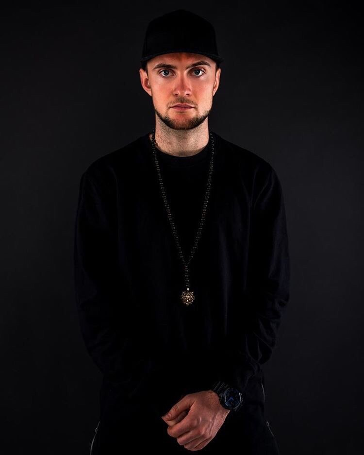 YARMAK